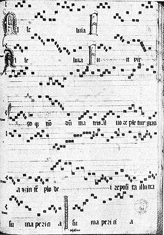 15th century manuscript (no. 107) from the University Library in Budapest, showing a movement for two voices